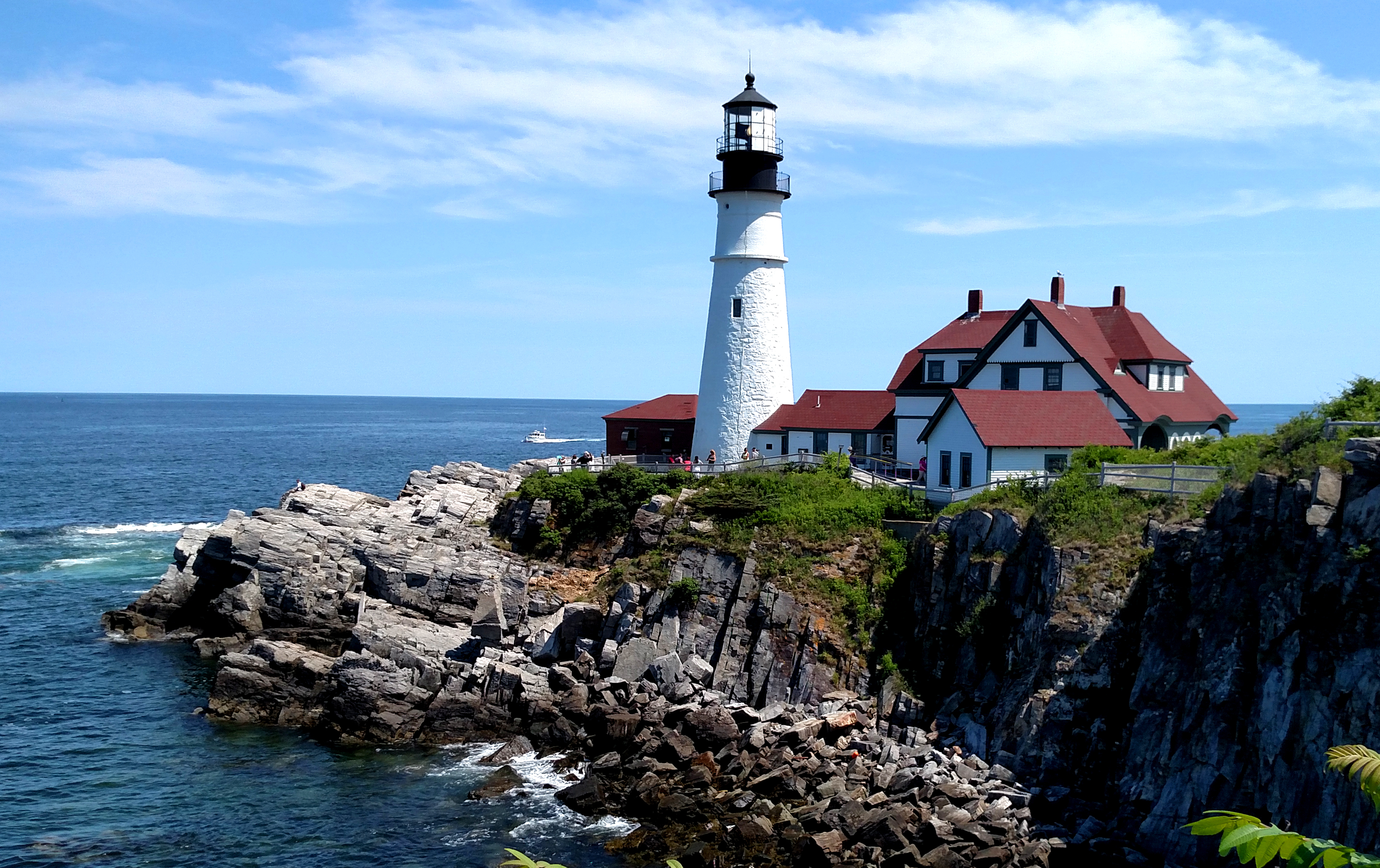 Portland Head Light